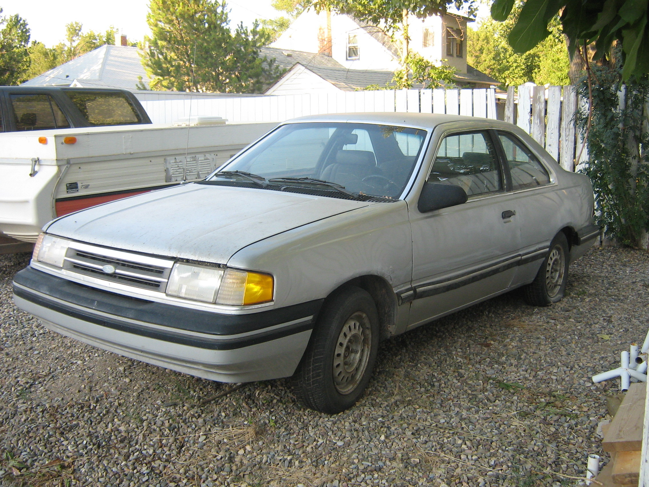 The rust is fixed. Not brilliant but very workable.